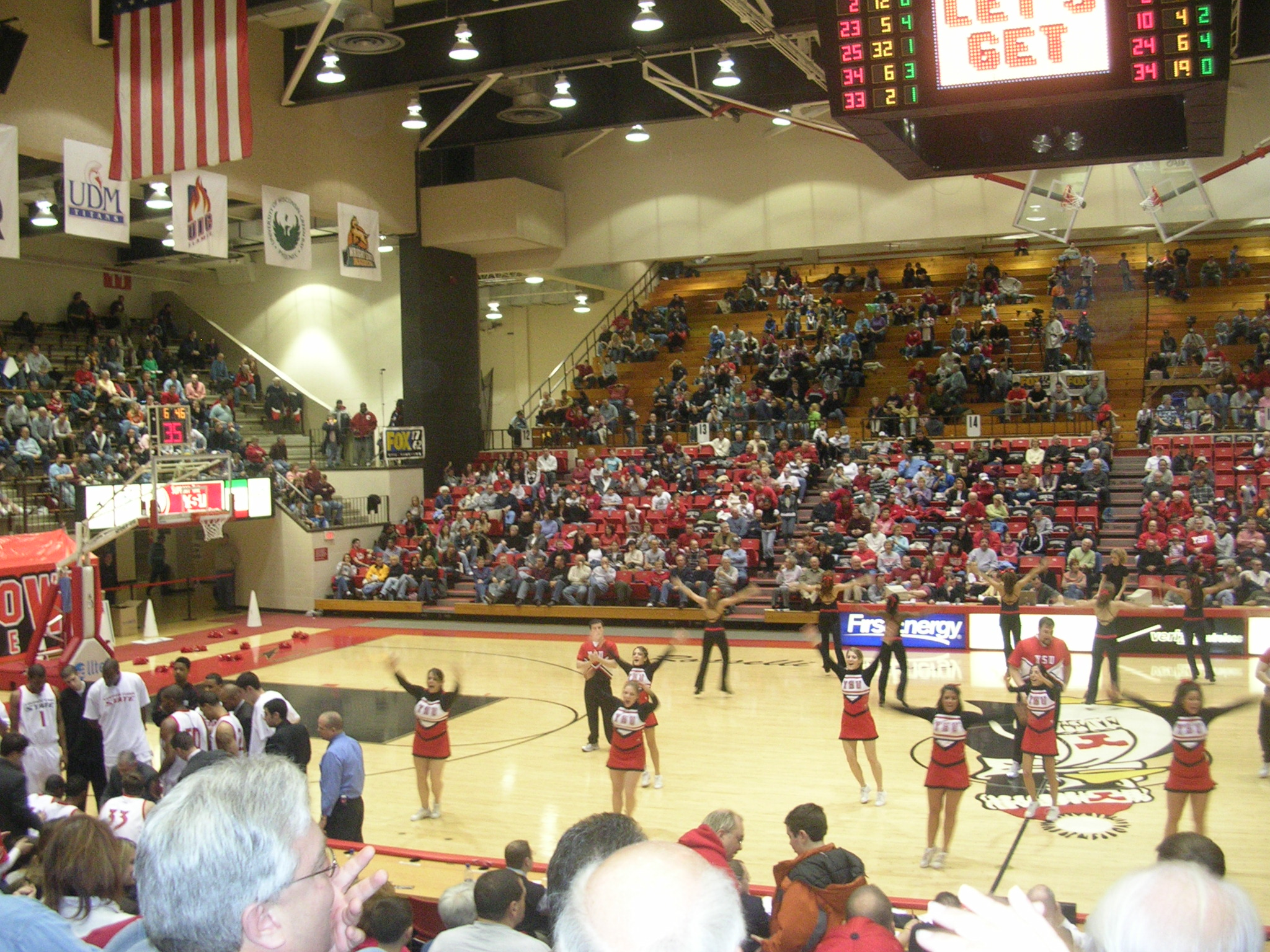 Photo from YSU-Loyola